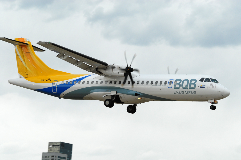 CX-JPL ATR-72-212A msn 816 operated by BQB Lineas Aereas seen landing at Buenos Aires Aeroparque (AEP/SABE).